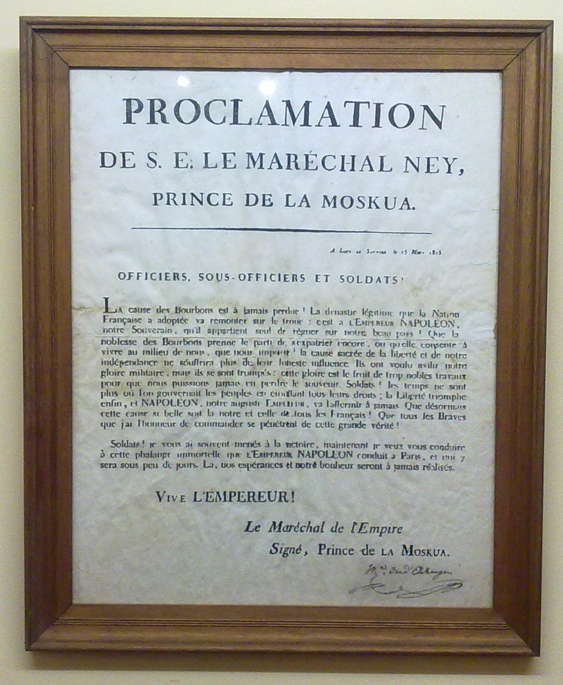 Marshal Michel Ney's proclamation to French soldiers, urging them to abandon the Bourbon royal family and side with Napoleon. Dated March 15, 1815